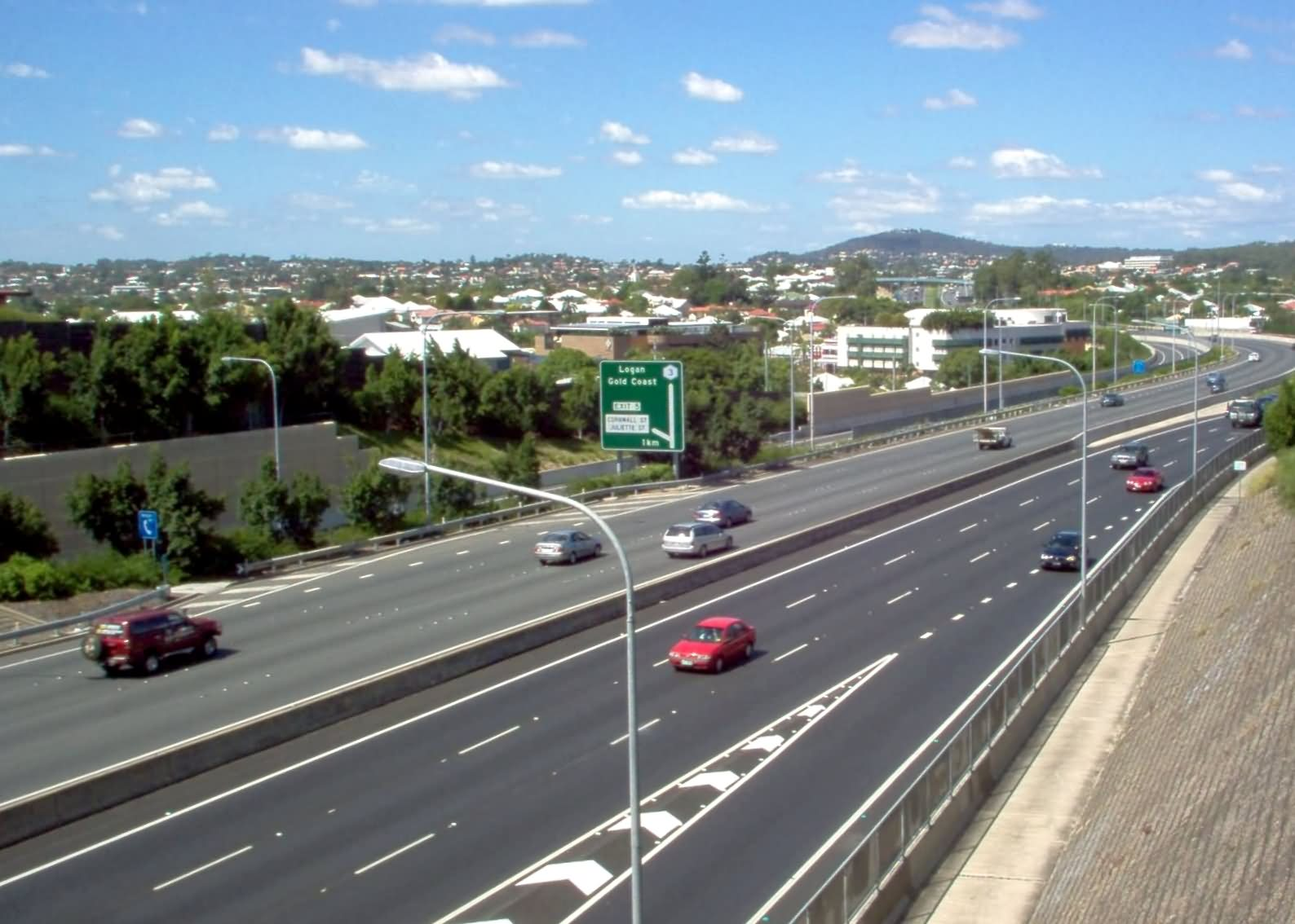 Looking south towards Mount Gravatt from Hawthorne Road overpass on the 28 March 2006.